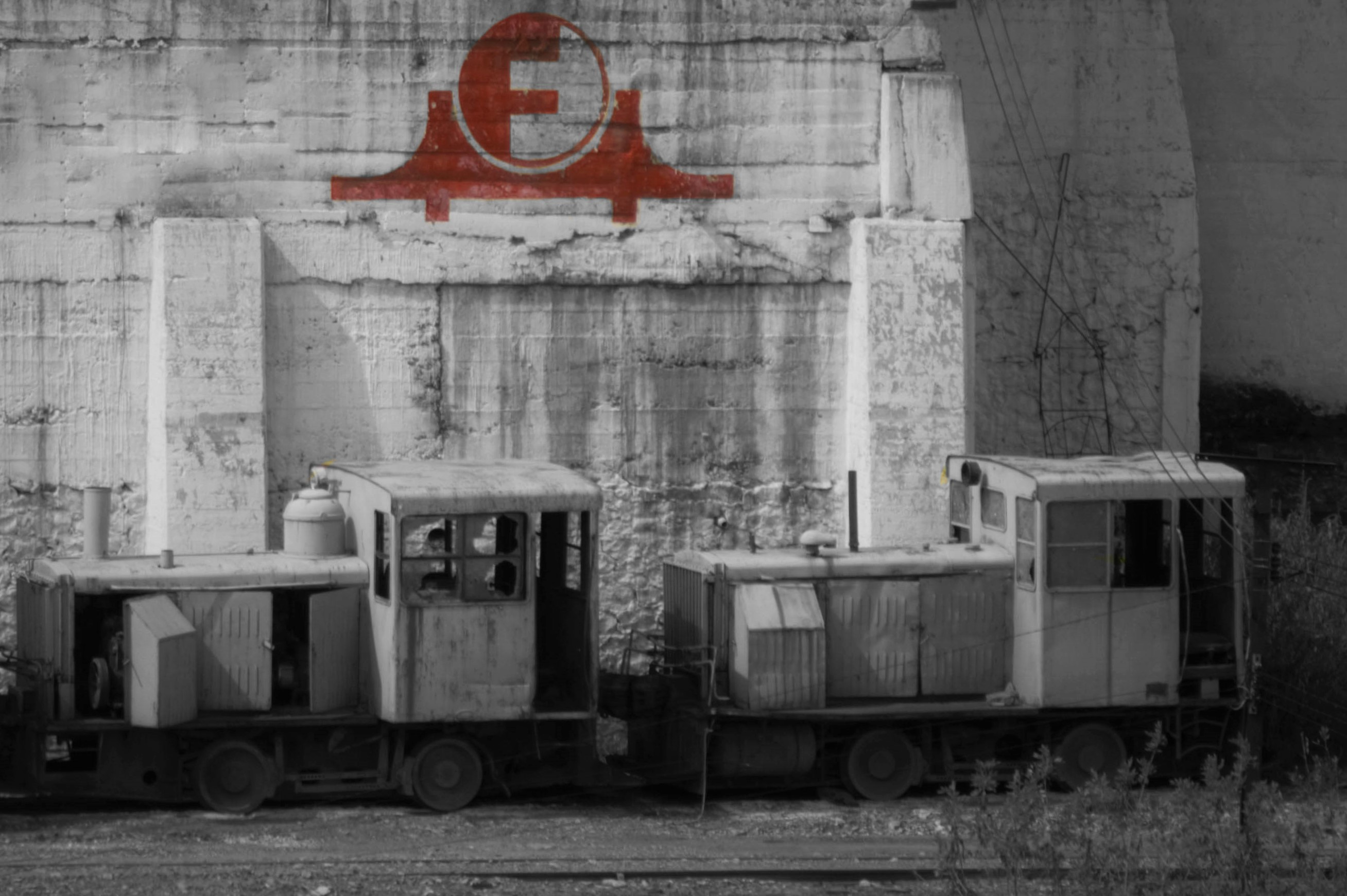 Carros Frisco